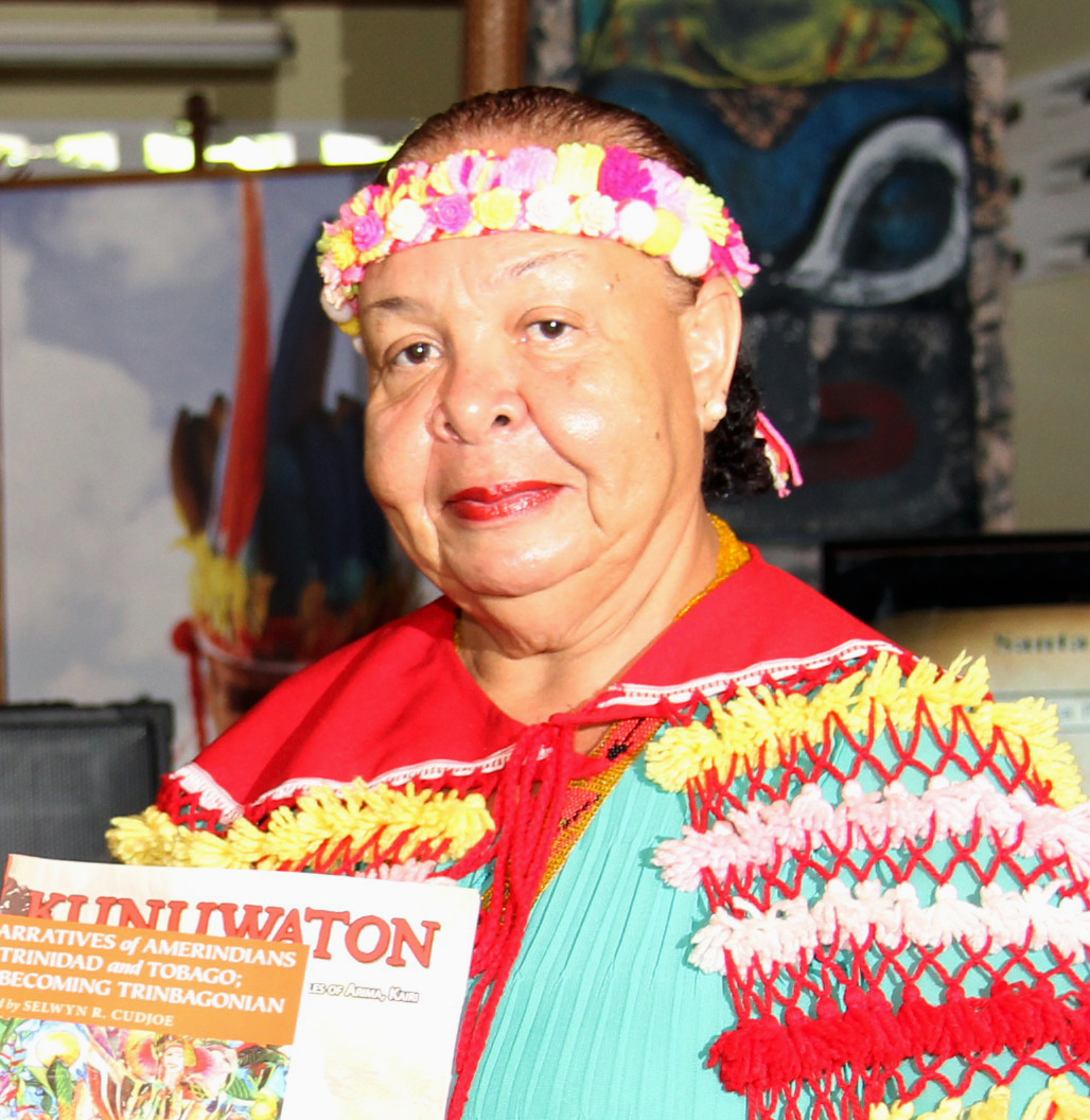 Carib Queen Jennifer Cassar, photographed at the Santa Rosa First Peoples Community on August 11, 2016. Cassar holds a gift to be presented to US Ambassador John L. Estrada.